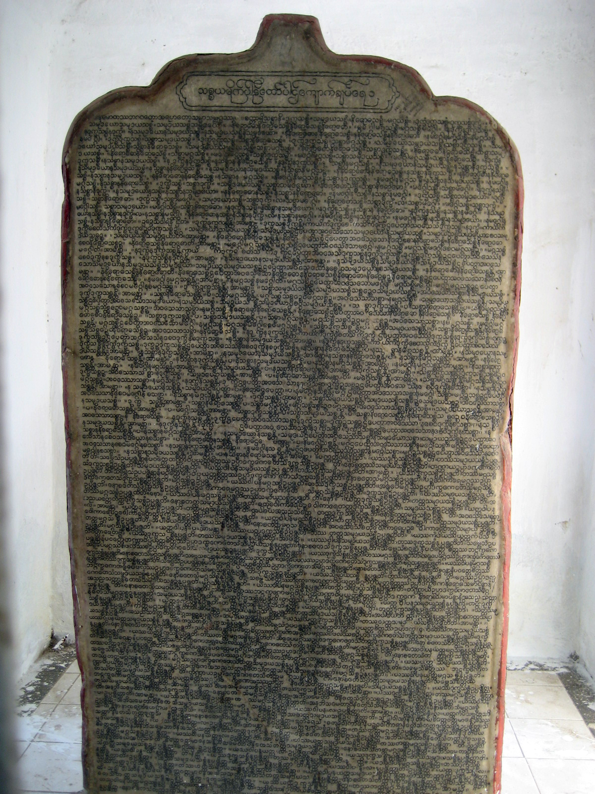 One of the today inscriptions or kyuaksa at the Kuthodaw Pagoda, Mandalay, Myanmar. The entire Tipitaka Pali canon of Theravada Buddhism is set on 729 marble slabs, each with 80 to 100 lines of text, originally in gold ink, on both the obverse and the reverse sides. Each stone is three and a half feet wide, five feet tall and five inches thick and housed in a kyauksa gu or a small cave-like stupa.